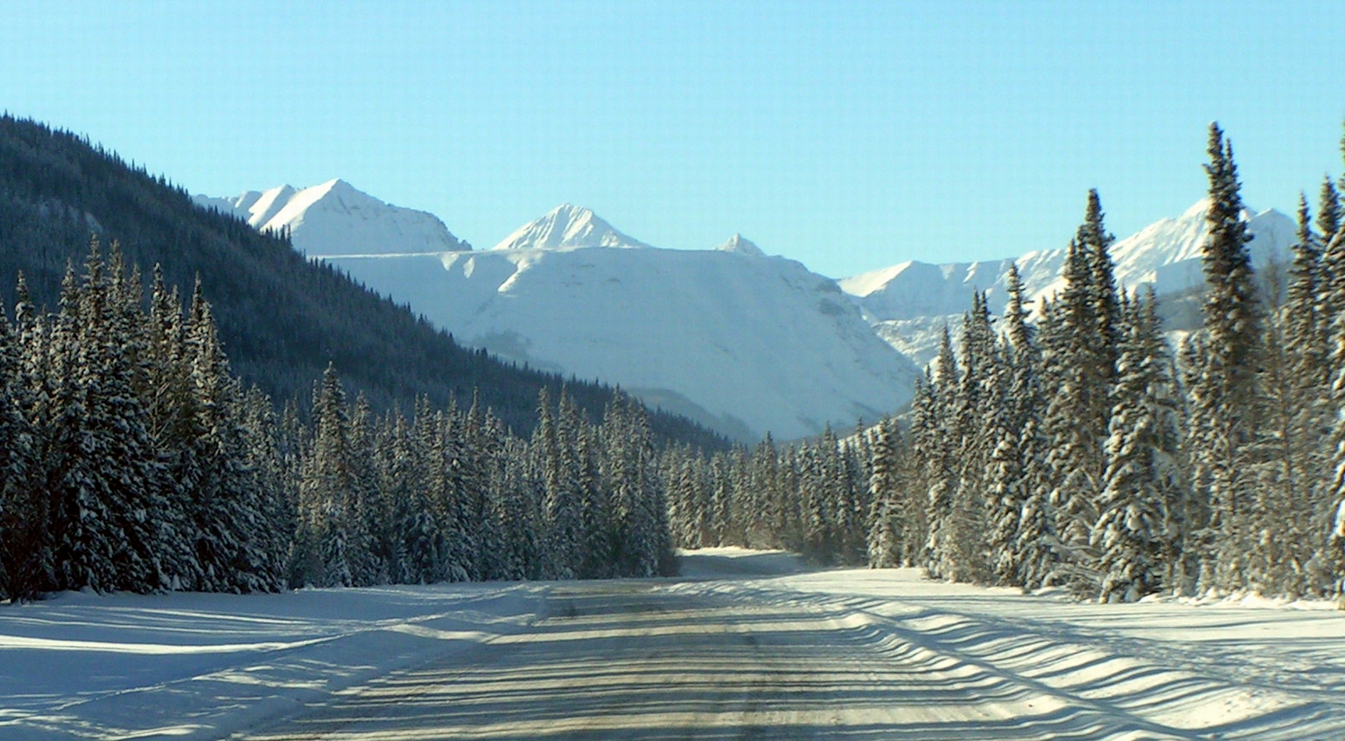 Muskwa Ranges, north-east British Columbia, crossed by the Alaska Highway